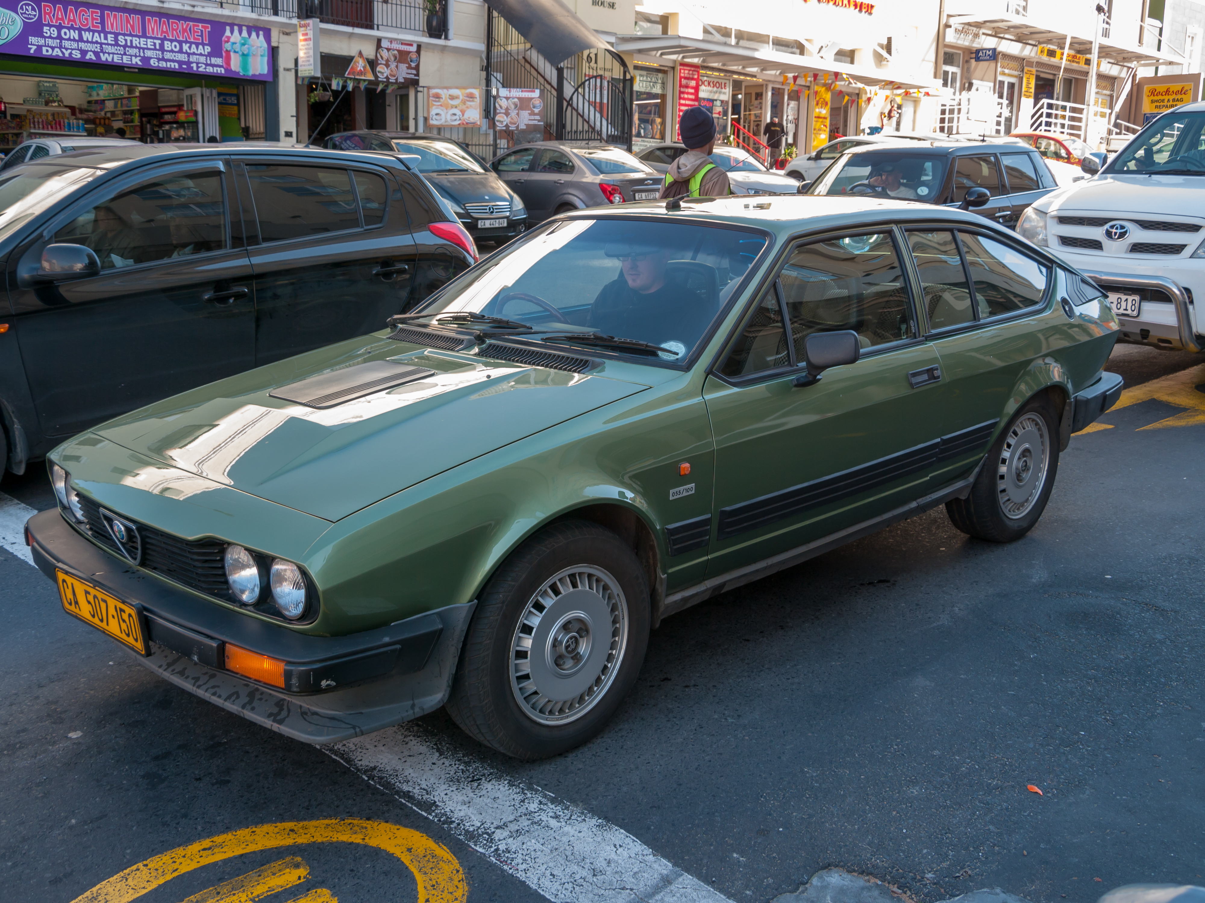 1982 Alfa Romeo GTV6, Cape Town. This is one of the first 100 GTV6 sold in South Africa and carries a numbered plaque on the side. While ARSA was gearing up for GTV6 production, 100 fully built-up cars were brought in from Italy for impatient buyers.